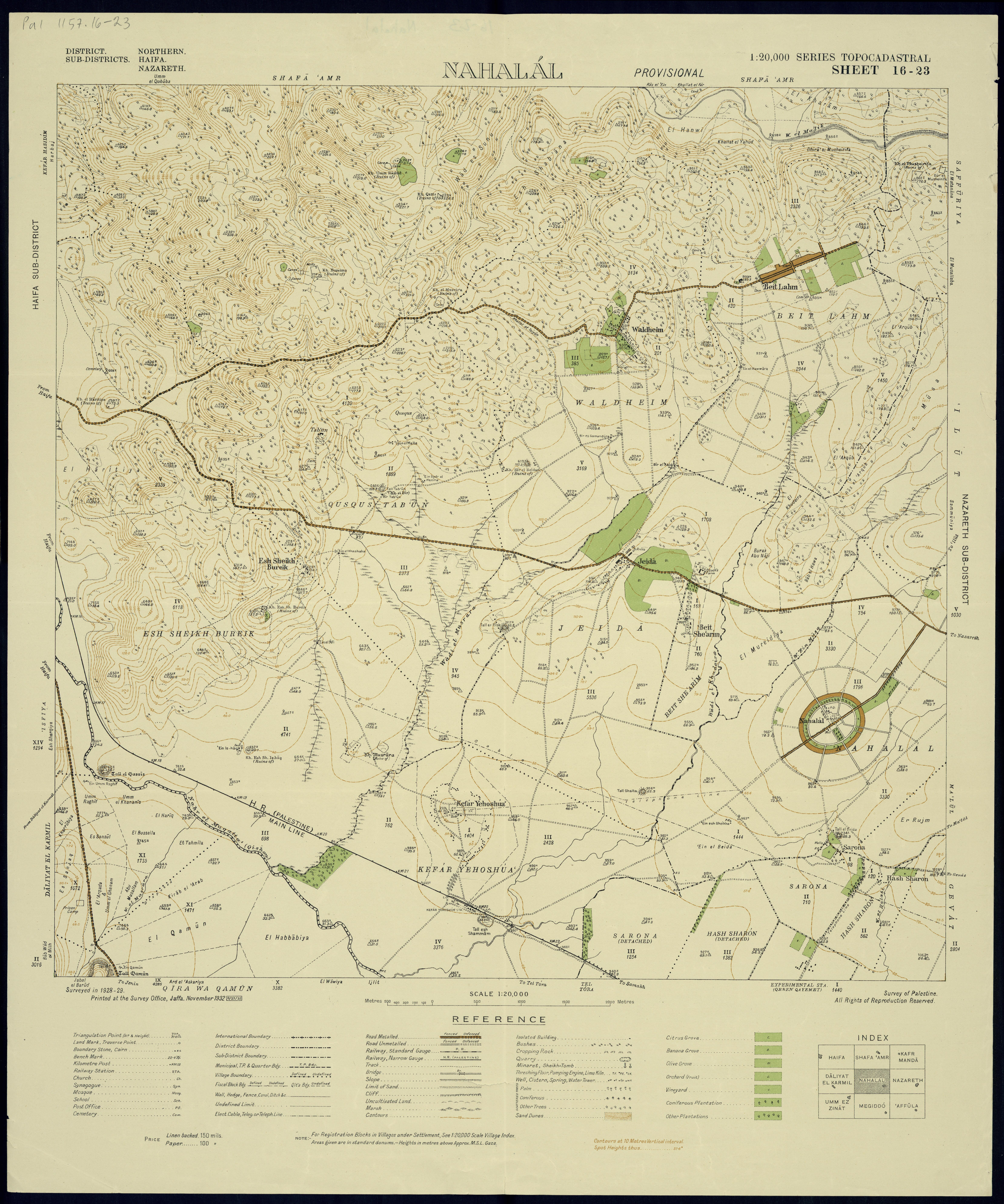 Survey of Palestine maps